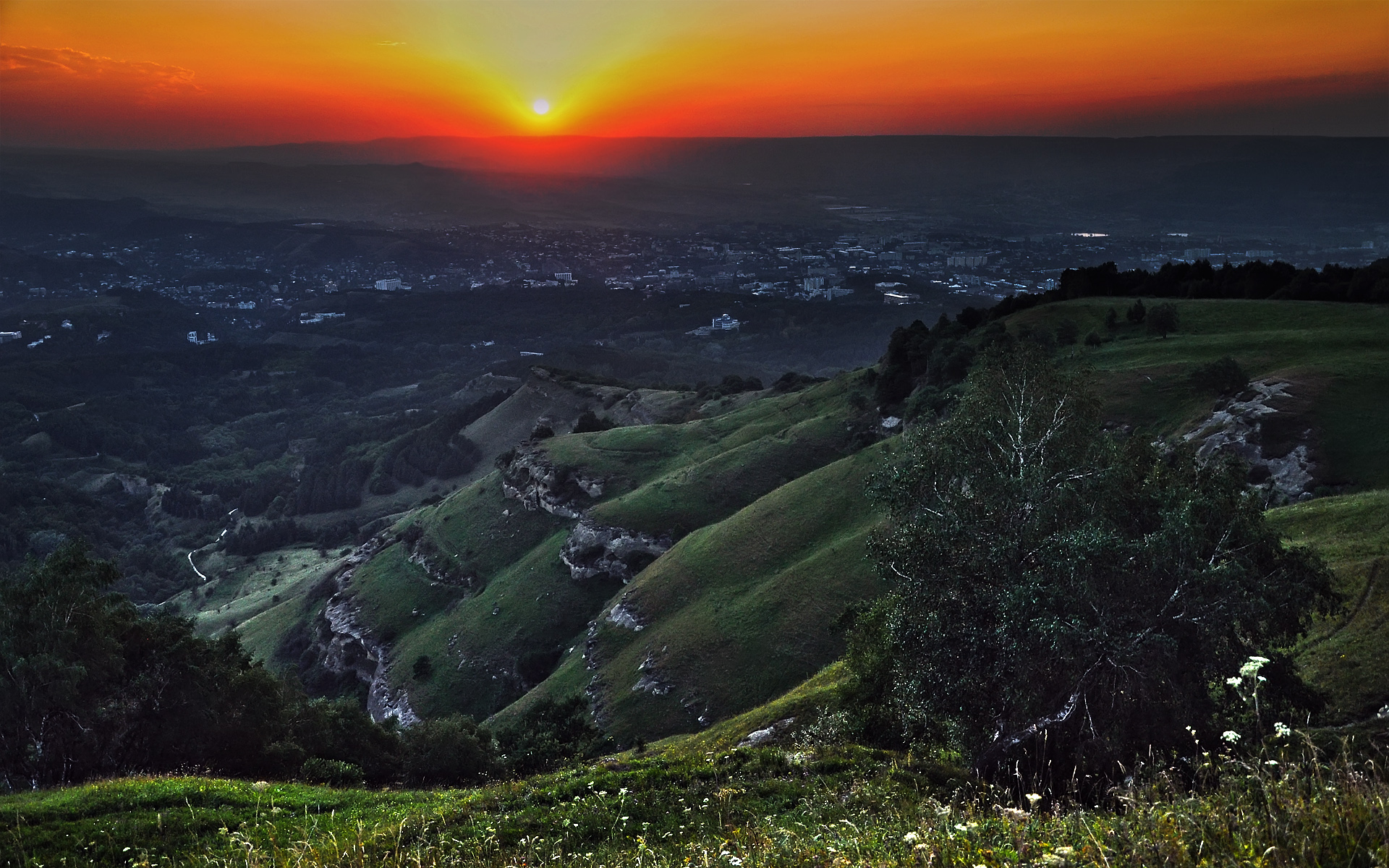 View of Kislovodsk from the Little Saddle at sunset.